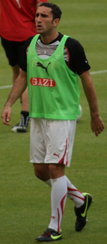 Cristian Molinaro